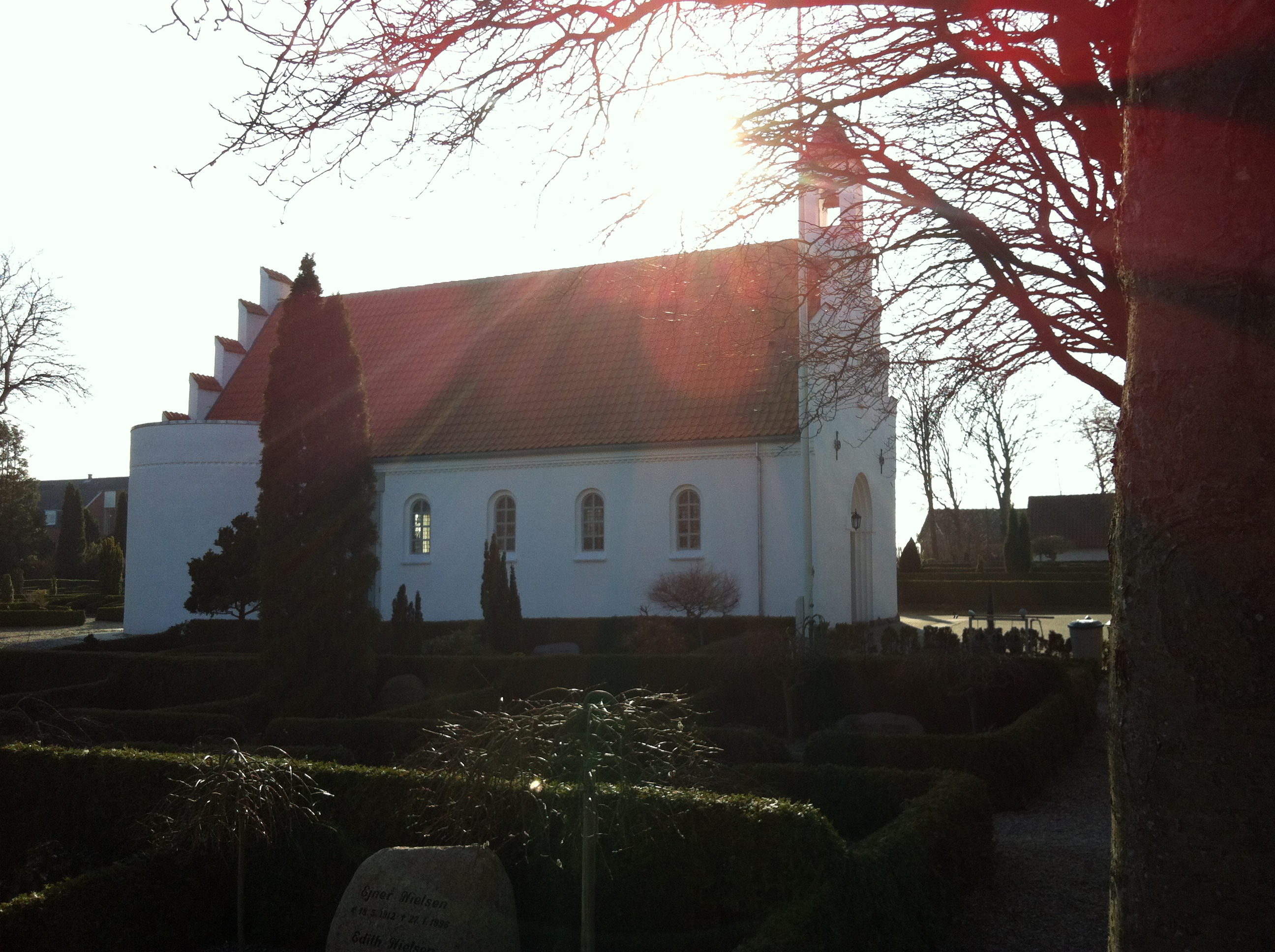 Assens Kirke (Mariagerfjord Kommune)